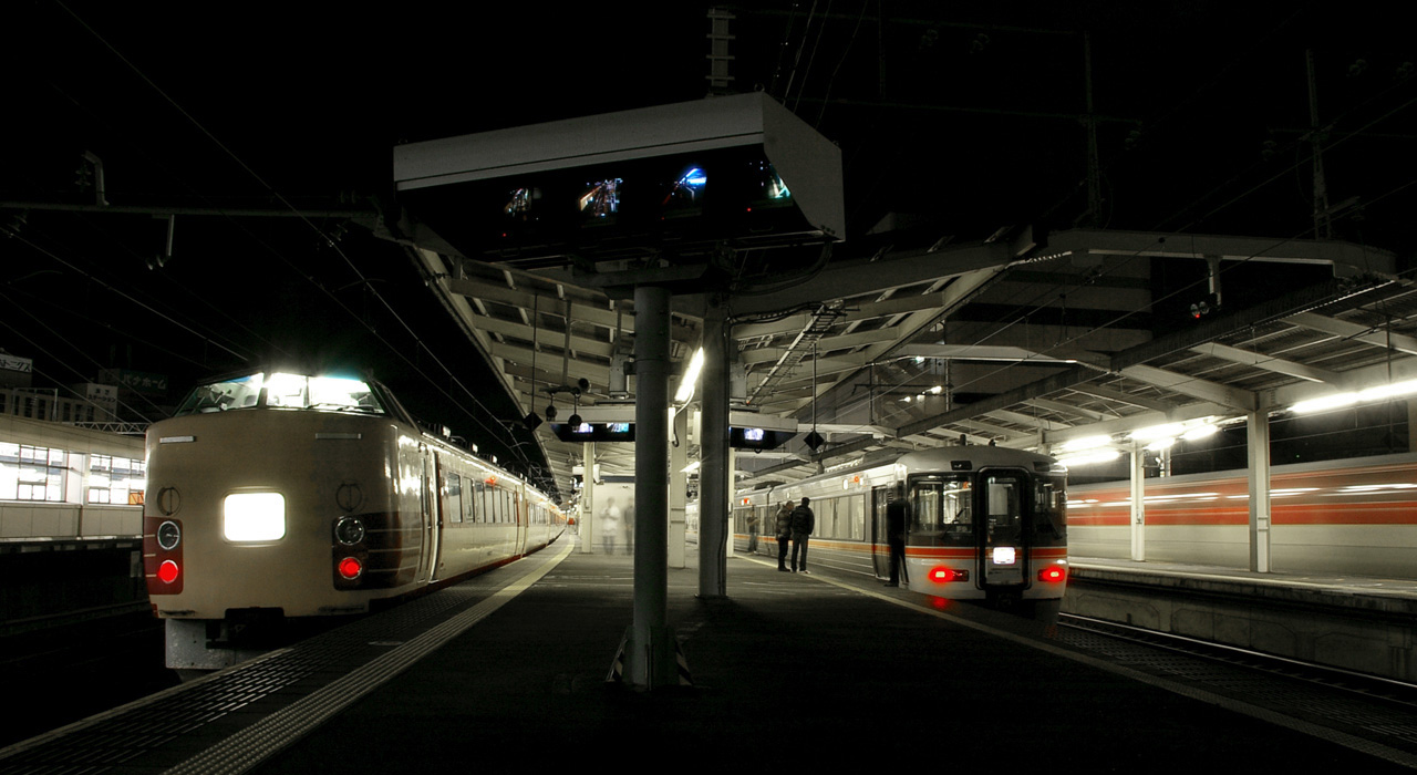 Overnight rapid train Moonlight Nagara and its variant Moonlight Nagara 91 at Hamamatsu Station